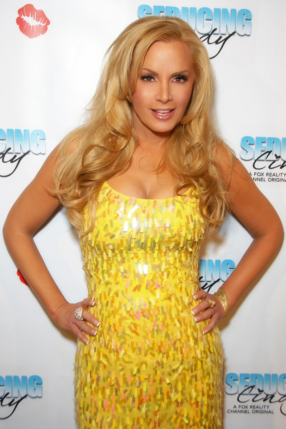 Cindy Margolis hosting the “Seducing Cindy” Finale Party, Studio City, CA on March 18, 2010 - Photo by Glenn Francis of